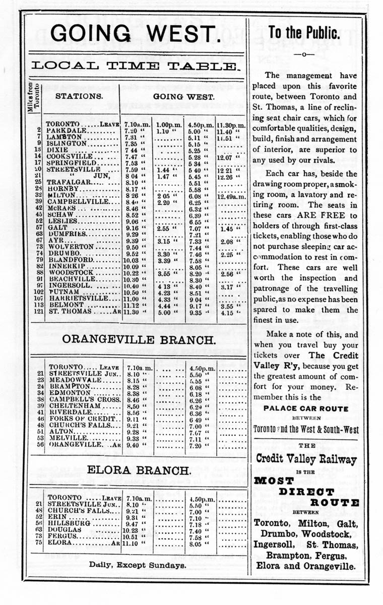 Credit Valley Railway 1883 timetable